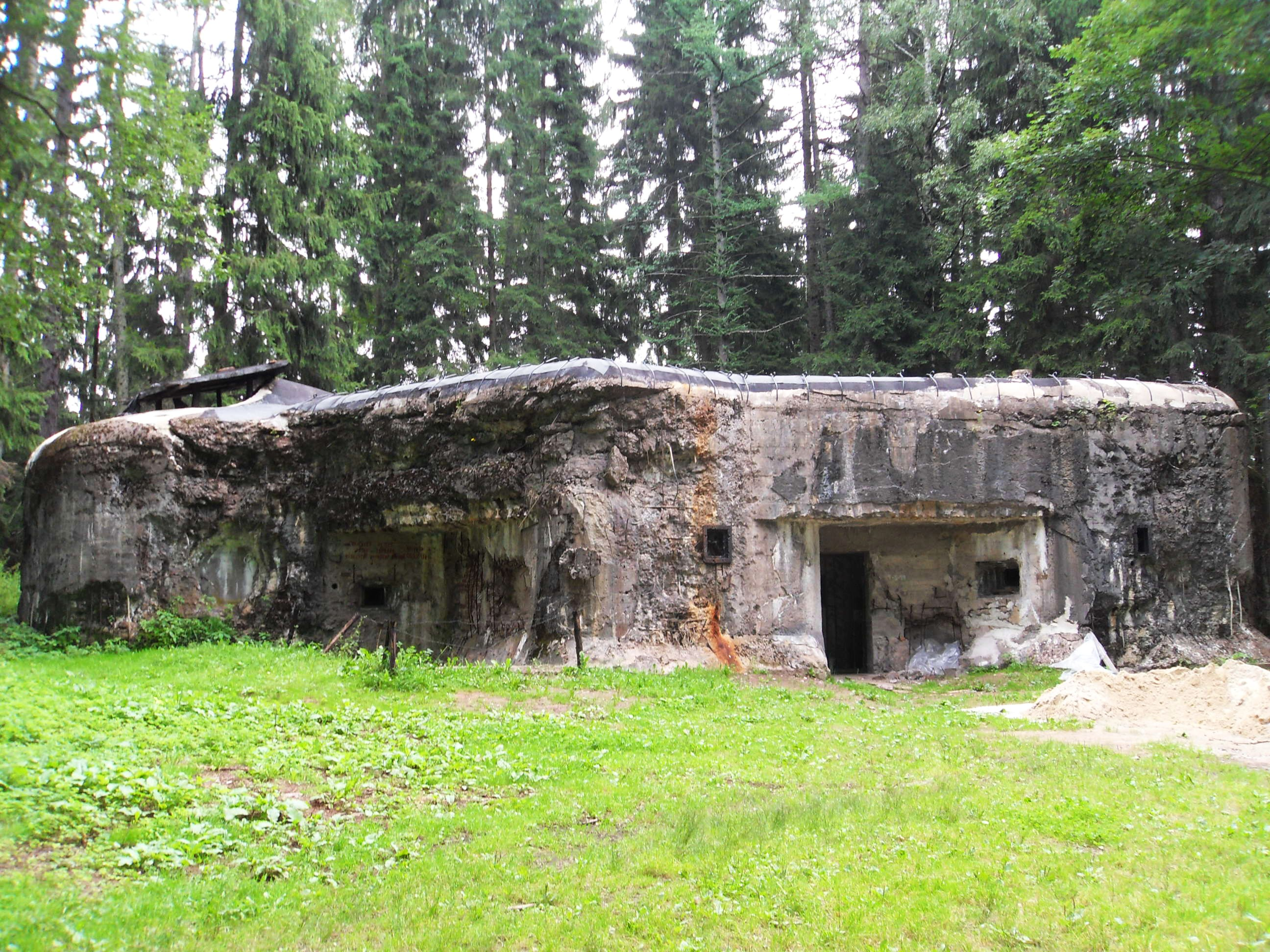 T-S 19 Turov infantry casemate, Náchod District, Czech Republic